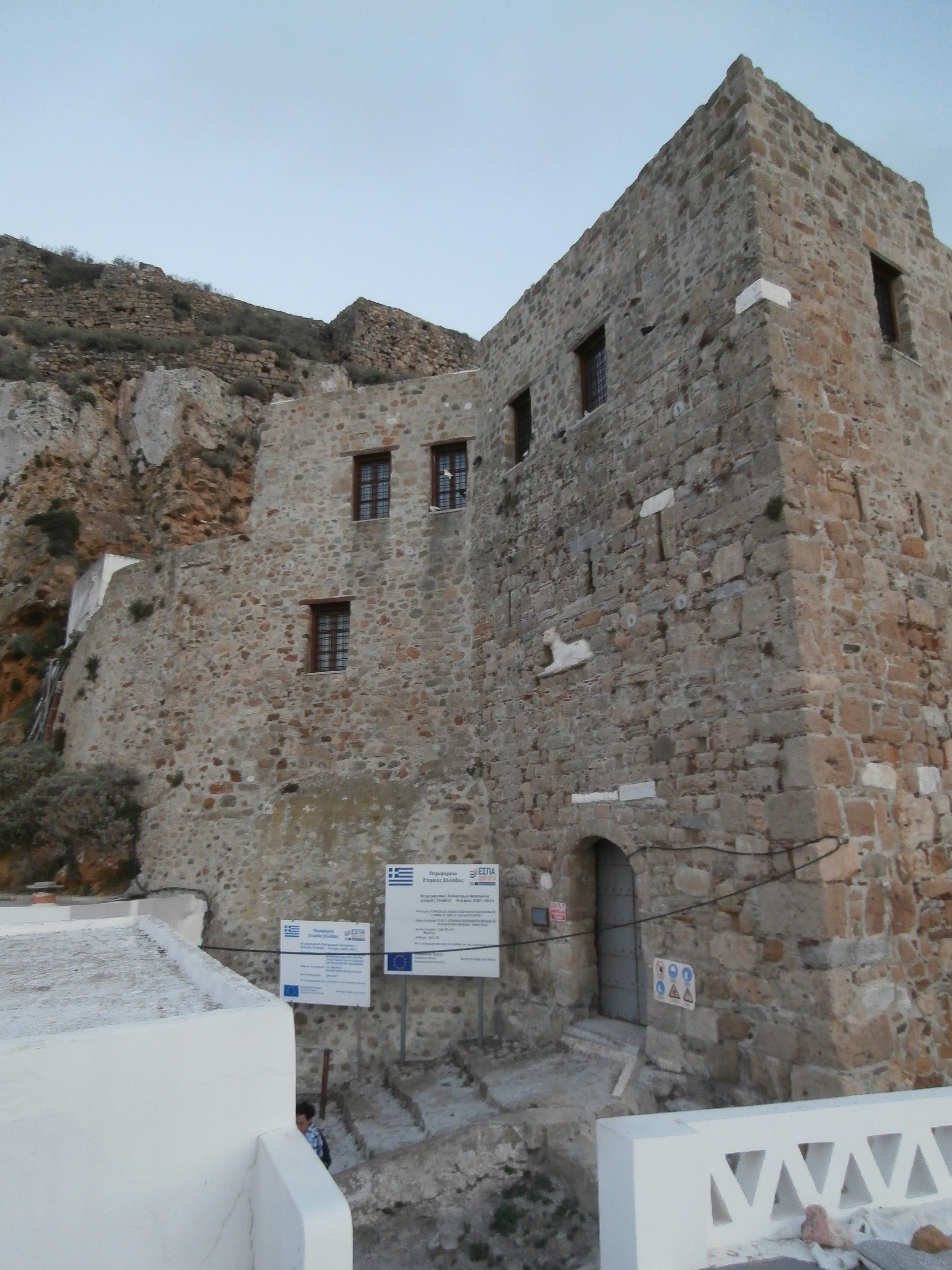 Caste of Skyros - Entrance«Κάστρο Σκύρου»